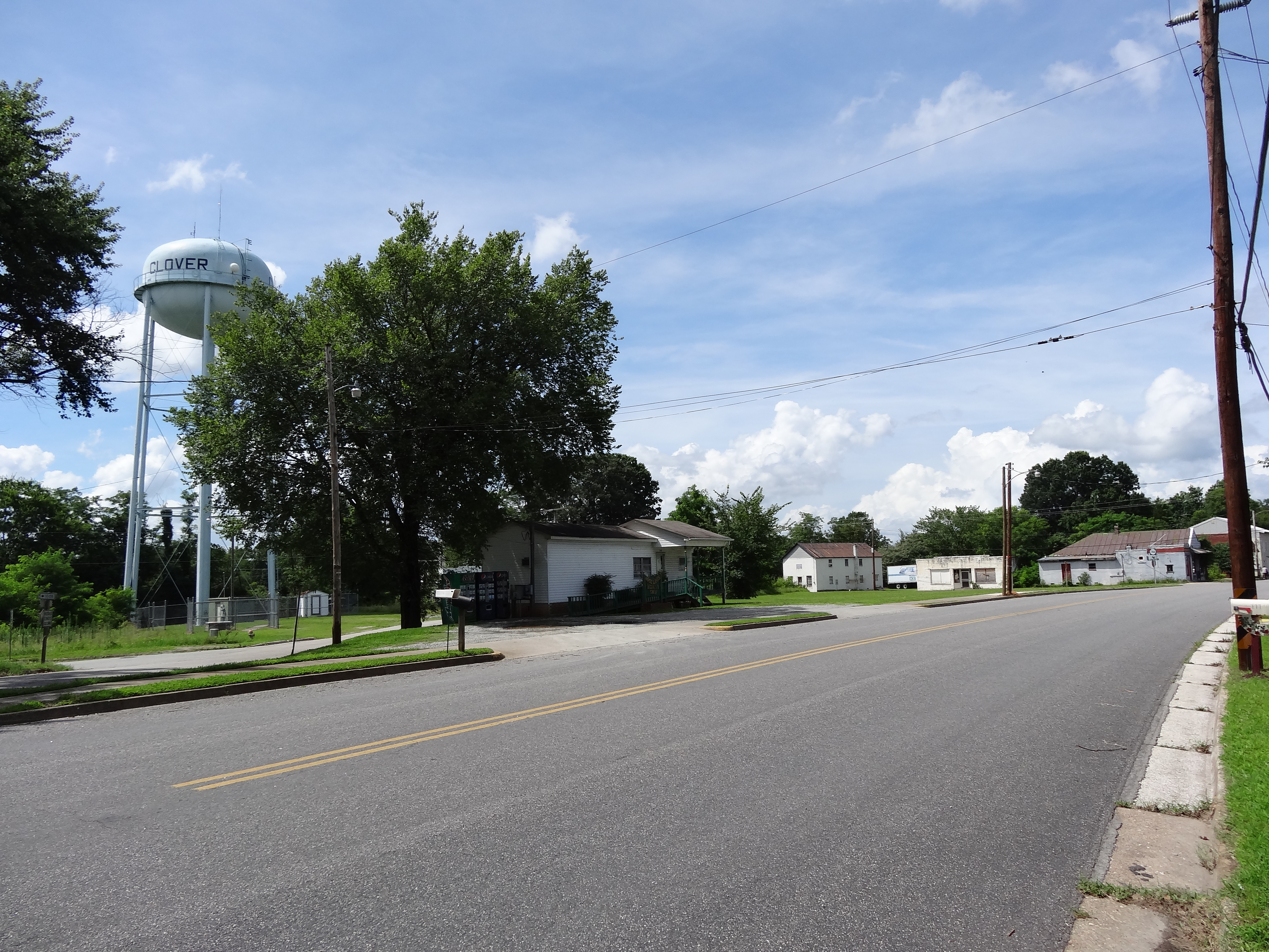 The center of Clover, Virginia, near the intersection of South Main Street (SR 92) and Mt Laurel Road (SR 746).